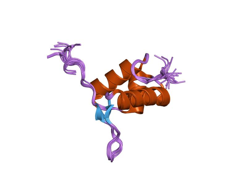 Cartoon representation of the molecular structure of protein registered with 2j5o code.